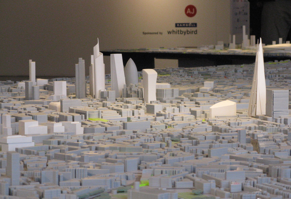 Models of the skyscrapers planned for the City of London and Southwark.